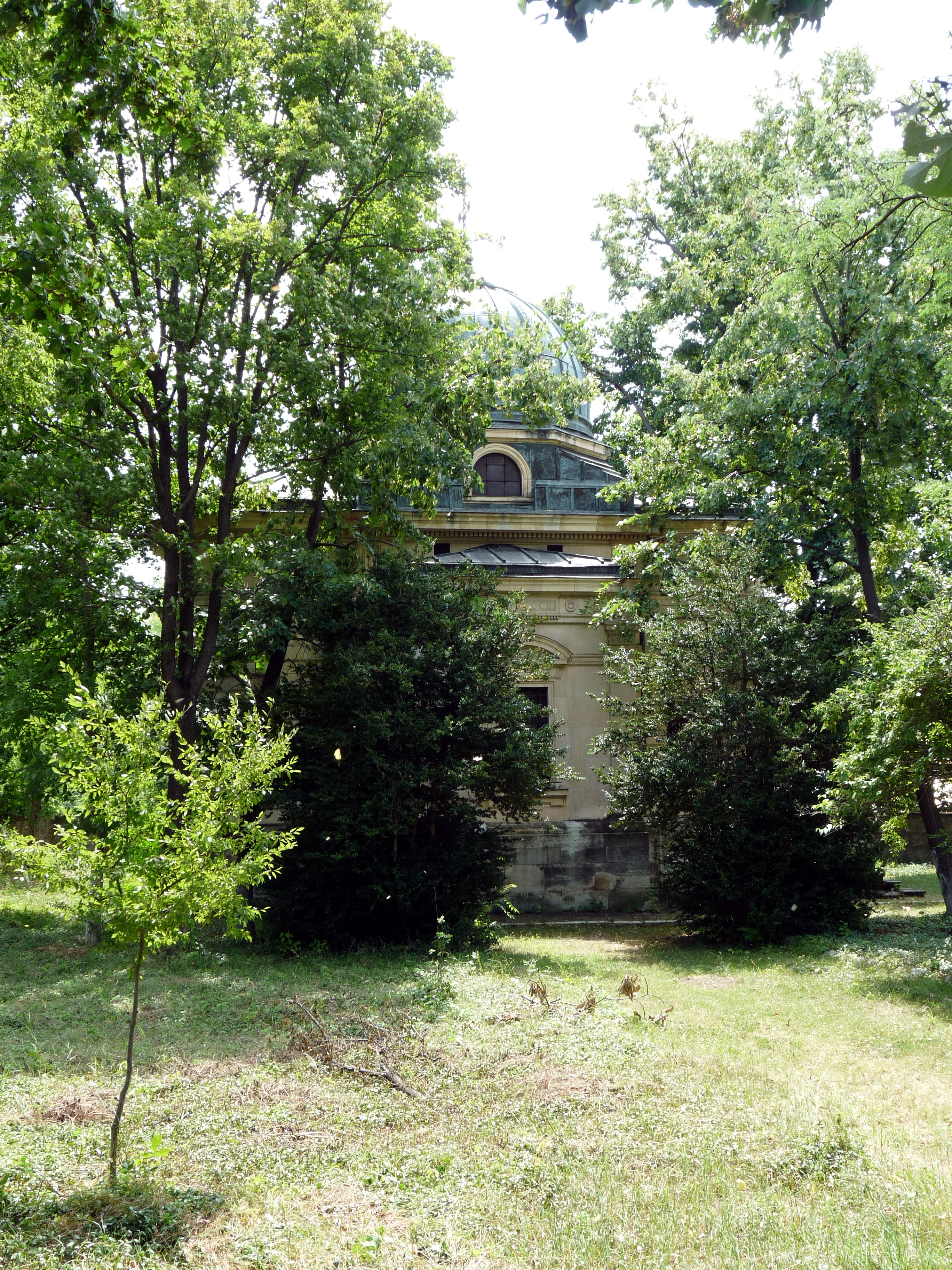 The Monteoru family chapel in Sărata Monteoru, Buzău County, Romania